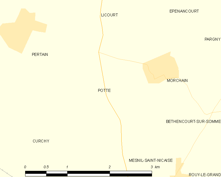 Map of French municipality Potte